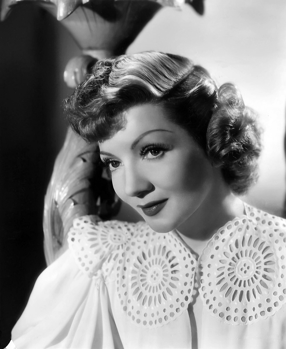 Promotional photograph of actress Claudette Colbert.